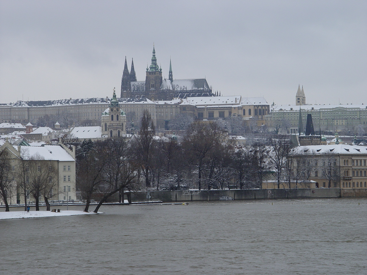 Prague - Hradcany in winter